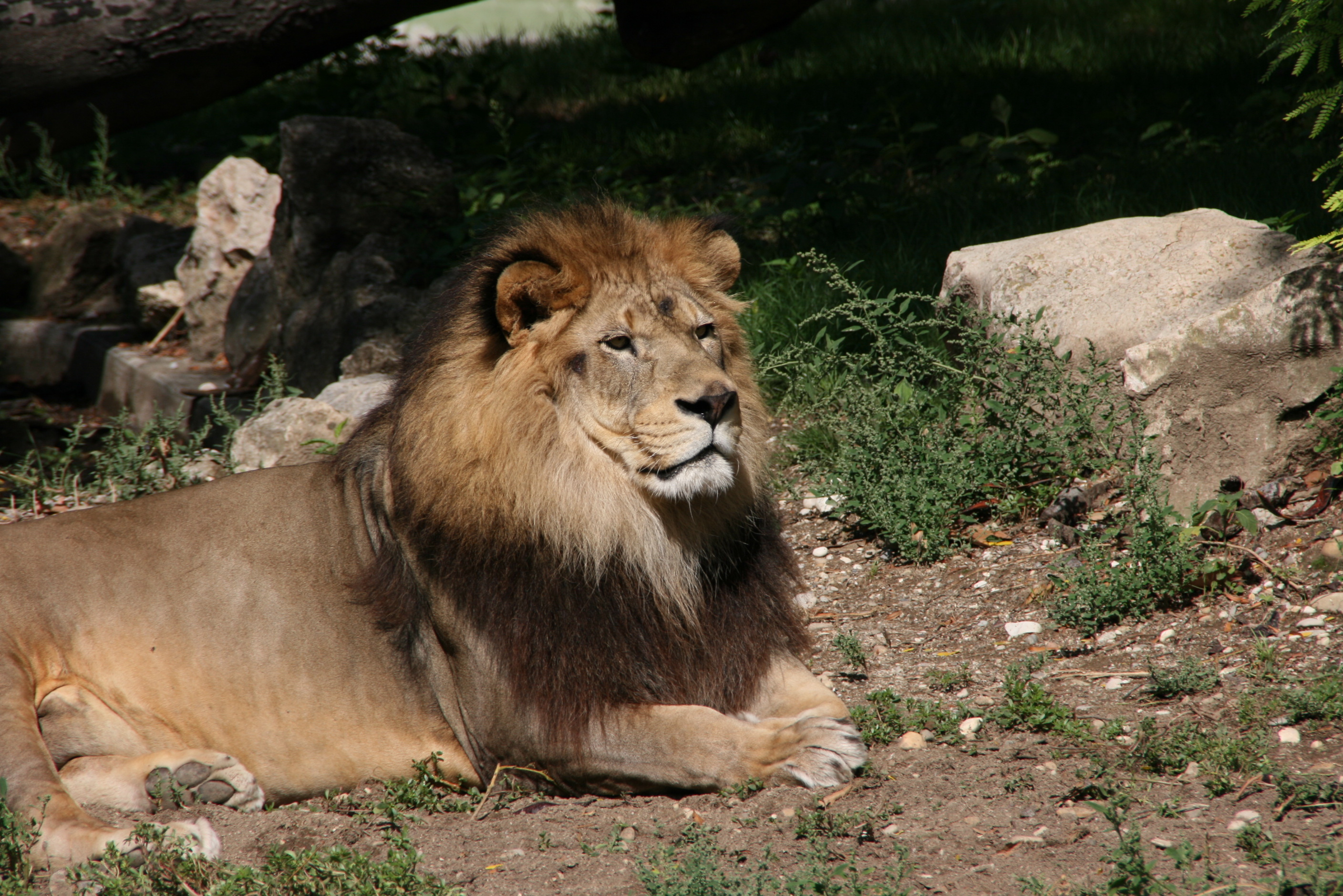 Atlas lion